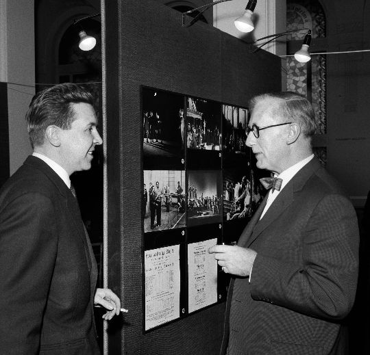 Photograph of the British literature scholar Harold Jenkins (1909–2000) during his visit to Finland, here discussing with the Finnish actor Pentti Siimes (left).